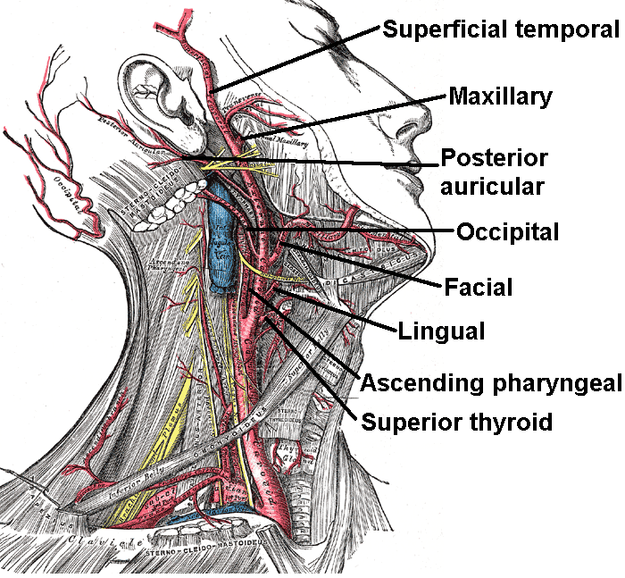 The External carotid artery arises in the carotid triangle and gives of 2 terminal divisions namely-maxillary artery & superficial temporal artery. It lies anteromedial to the internal carotid artery in its lower half and anterolateral to the same in its upper half. It then terminates behind the neck of the mandible